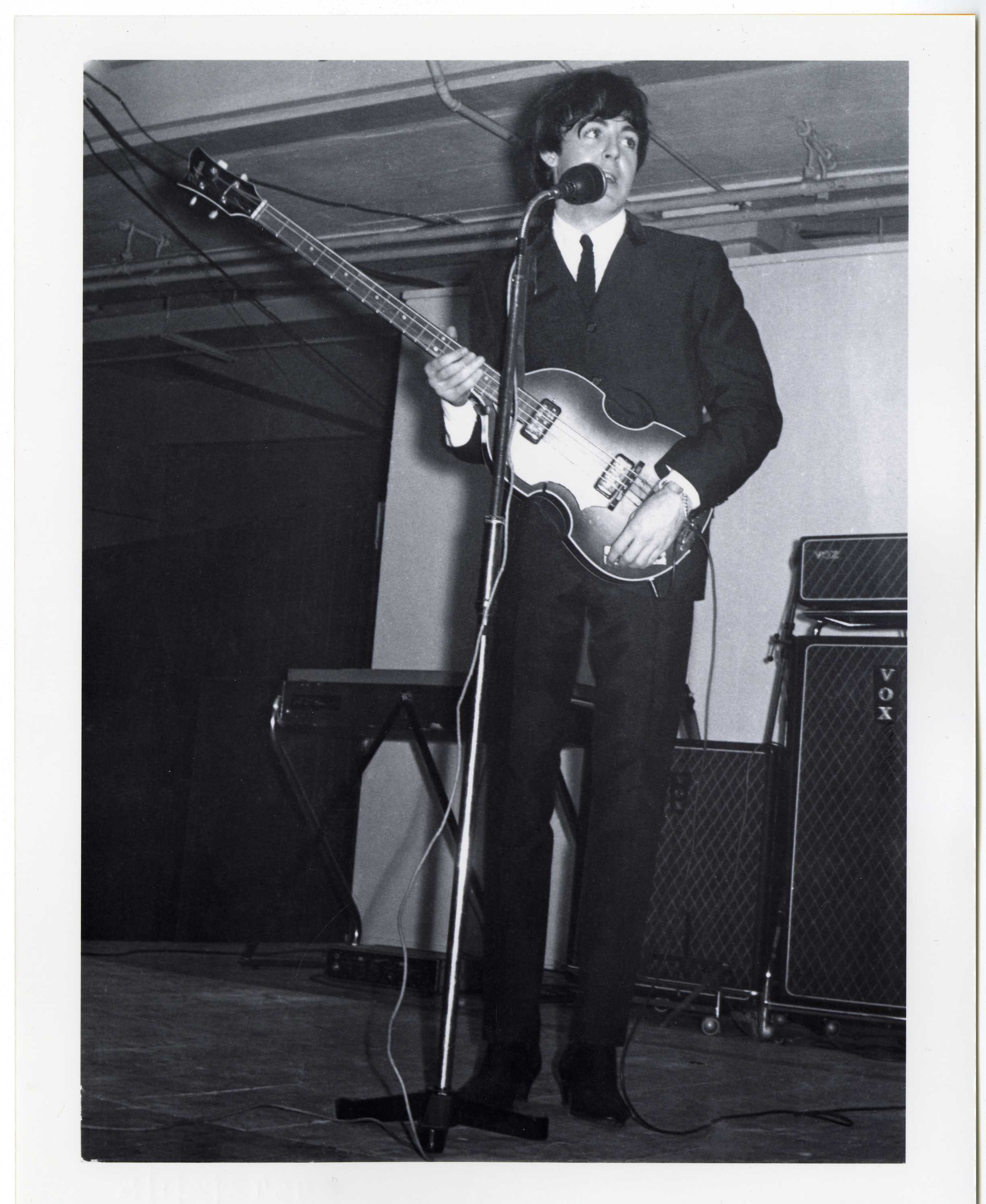 Creator: Nick Newbery Date: 2nd November 1964. Original format: Photographic print. Description: Photograph showing Paul McCartney on stage playing a show at the King's Hall, Belfast in 1964. PRONI ref: D/4542/2/1/1A Picture credit: Nick Newbery Copying and copyright: Please For Copy Orders, contact: For fees and charges